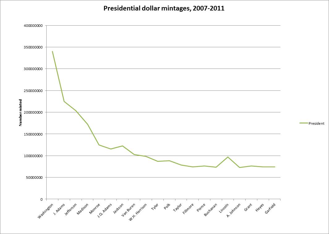 A grapgh showing the mintages of Presidential $1 coins from 2007 until 2011. This was when production was ended for circulation.